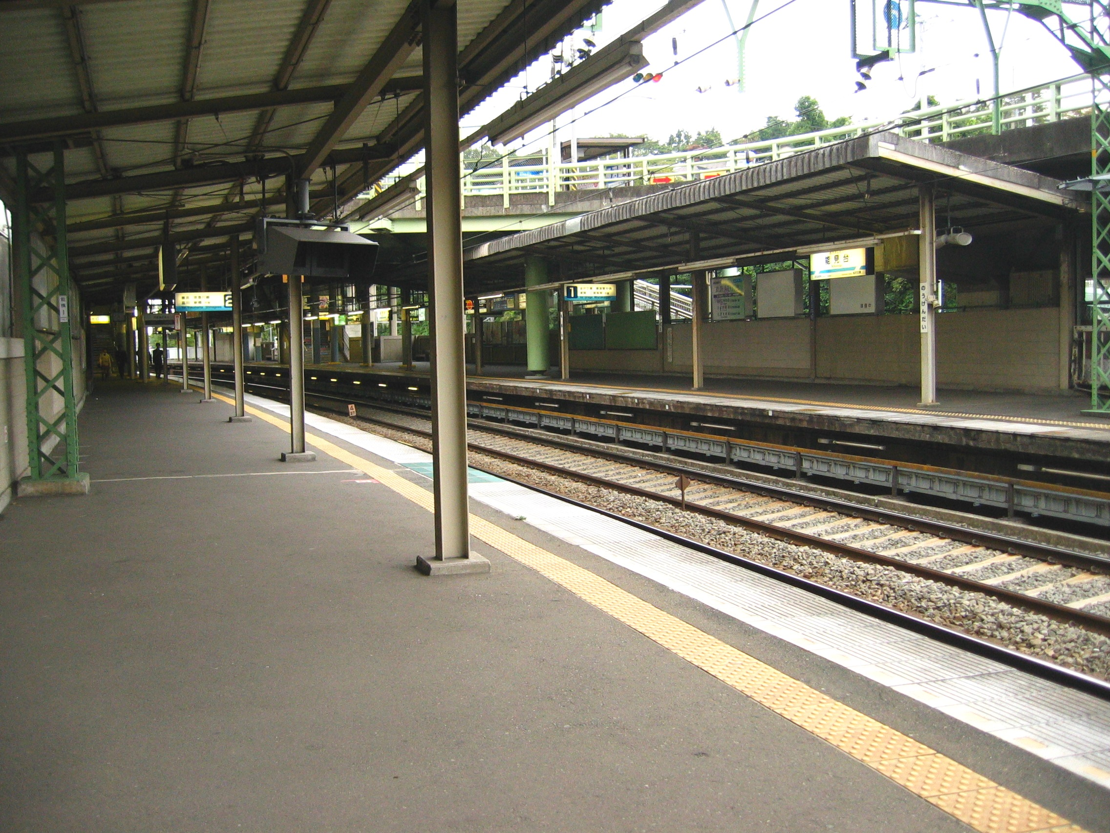 Keikyu Main Line, Nōkendai Station Platform(Kanagawa, Japan)